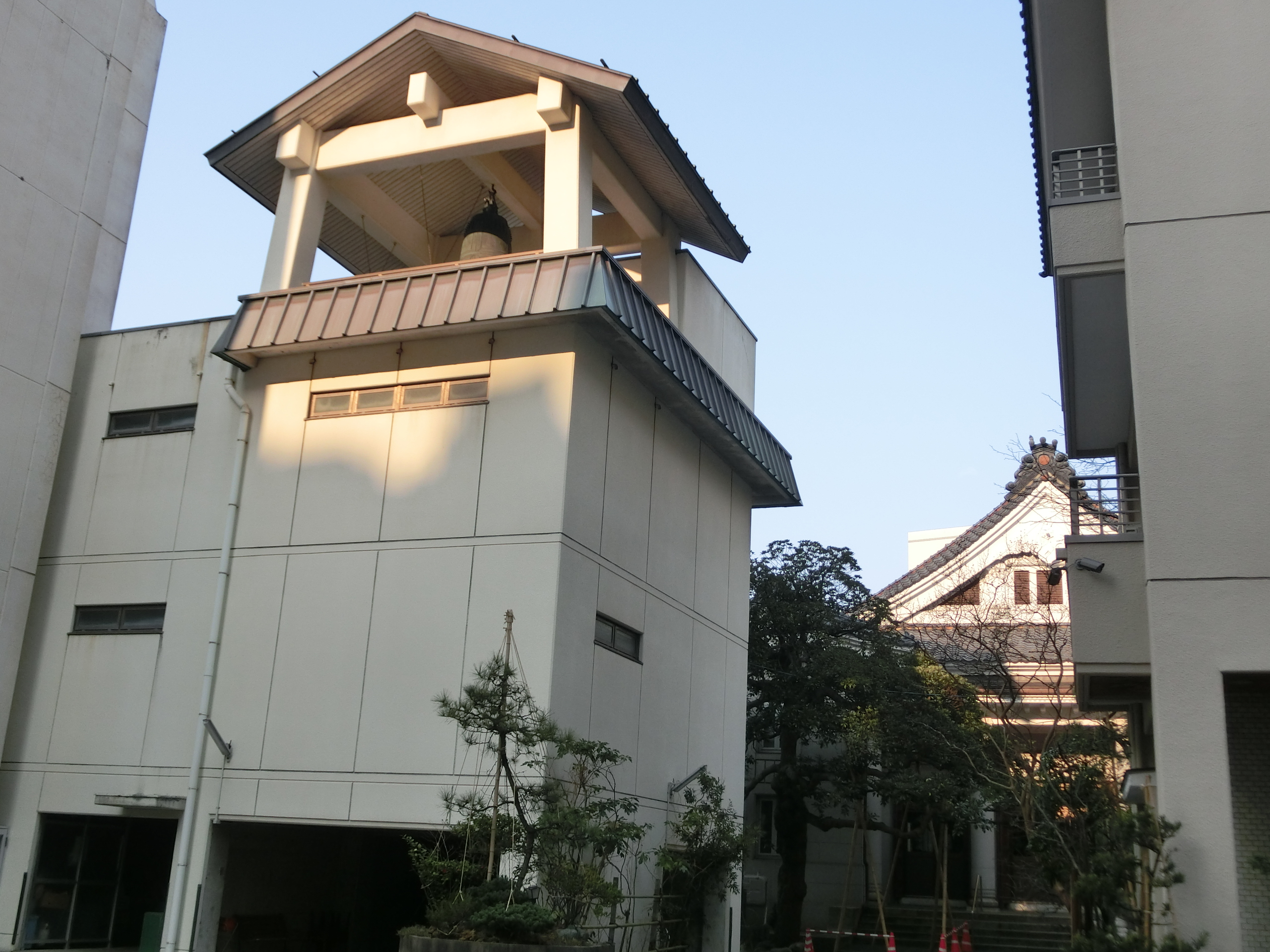 Korin-ji (Chuo, Niigata)